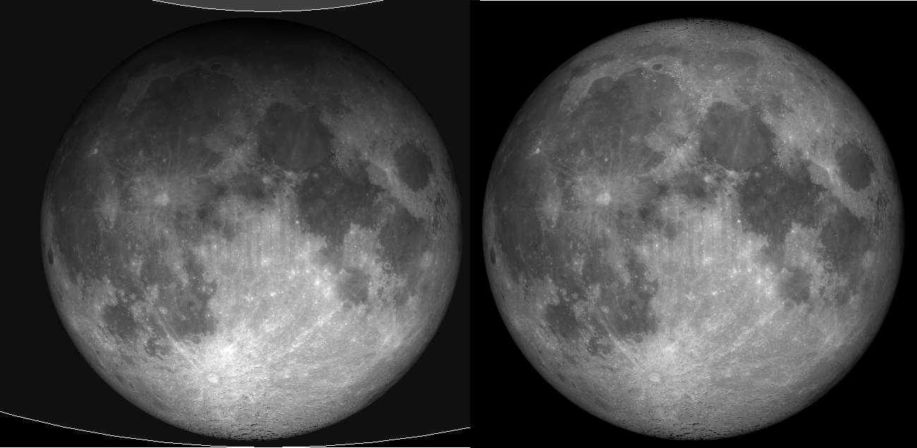 Simulation of a January 1999 penumbral lunar eclipse.